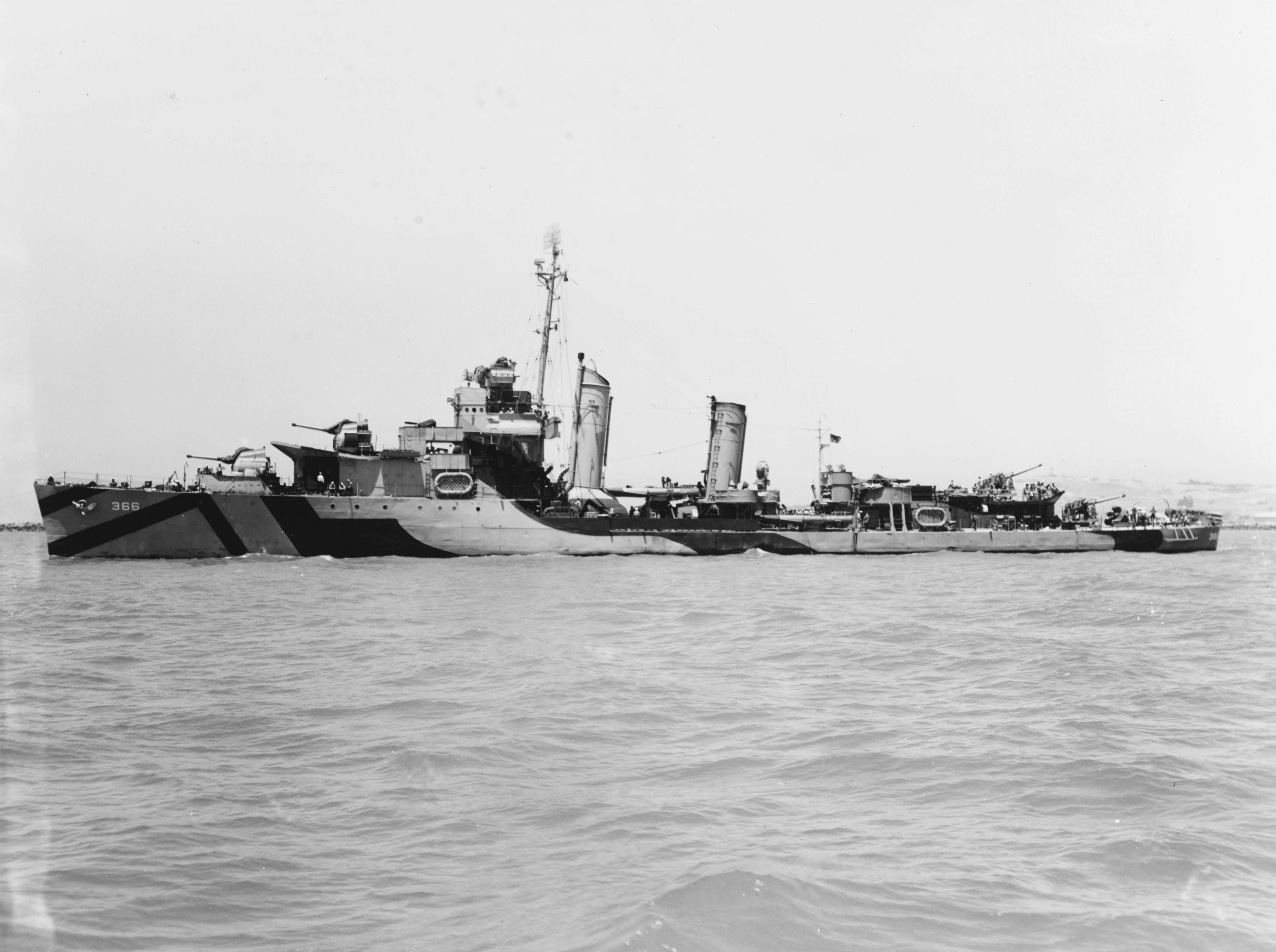 The U.S. Navy destroyer USS Drayton (DD-366) off the Mare Island Naval Shipyard, California (USA), on 26 June 1944. The ship is painted in Camouflage Measure 31, Design 23d.